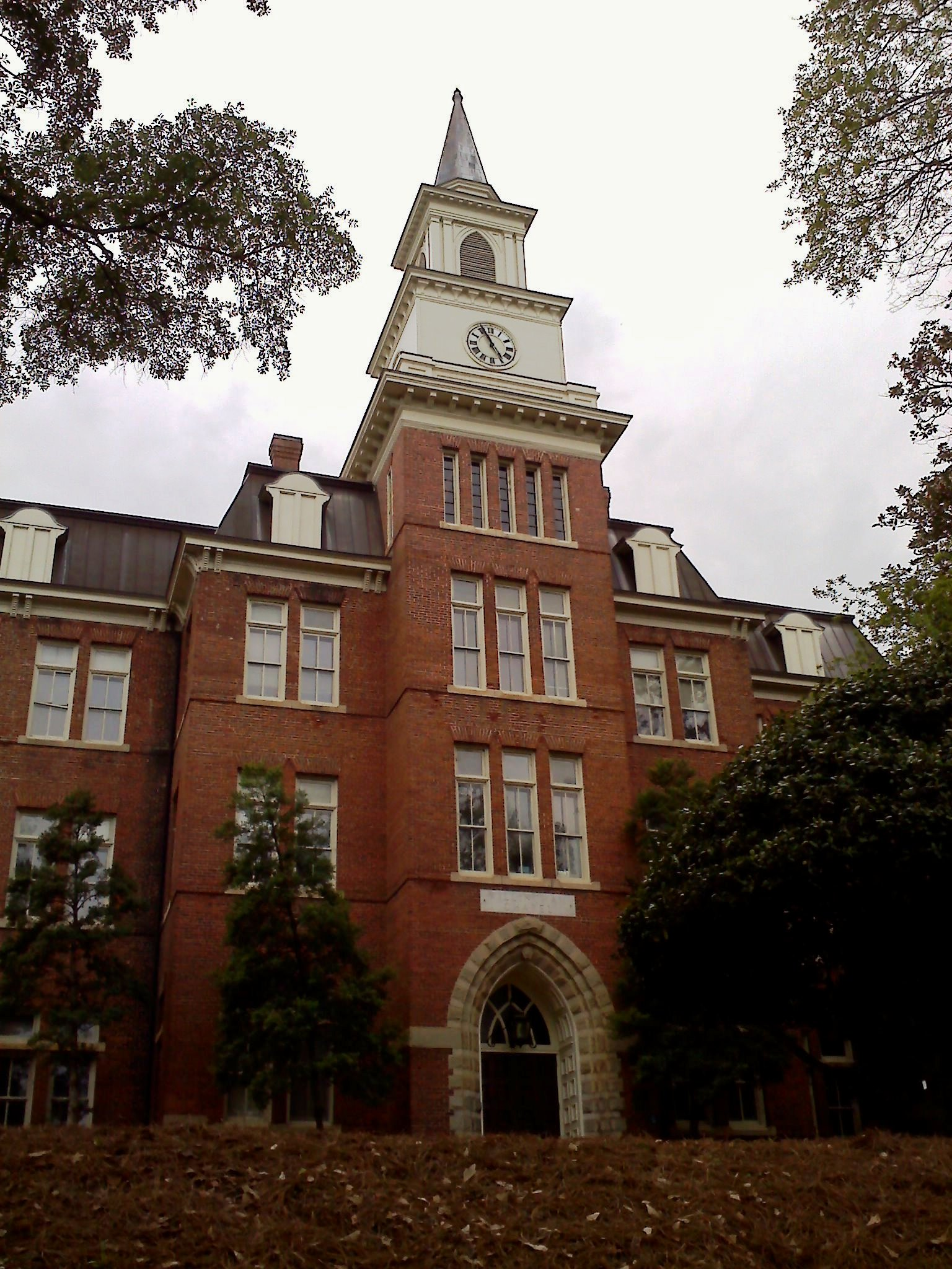 Mercer University's Willingham Hall in Macon, Georgia, United States. The building was constructed in the late nineteenth century and is an academic building for the university's College of Liberal Arts.